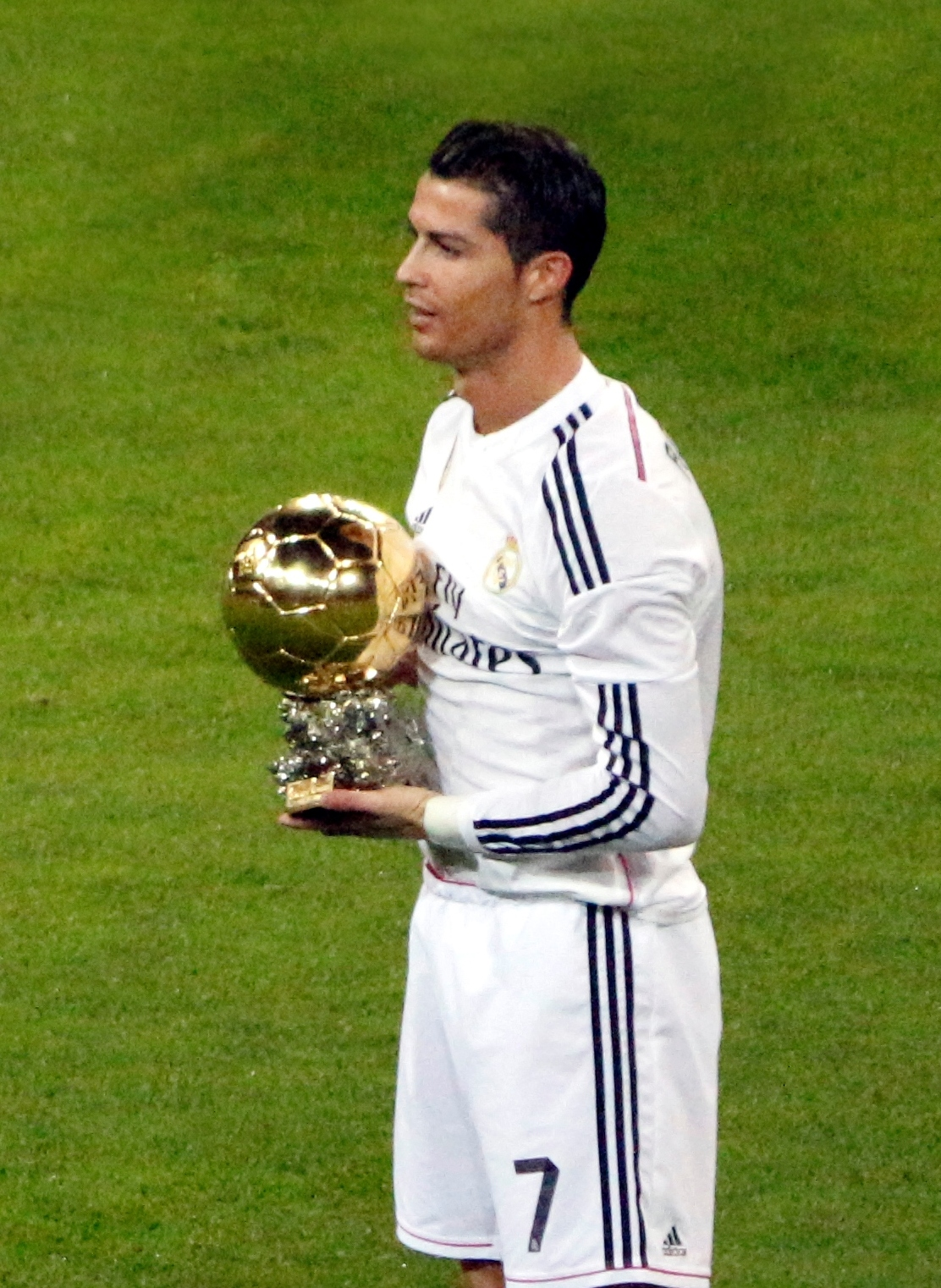 Cristiano Ronaldo presents his 2014 Ballon d'Or.